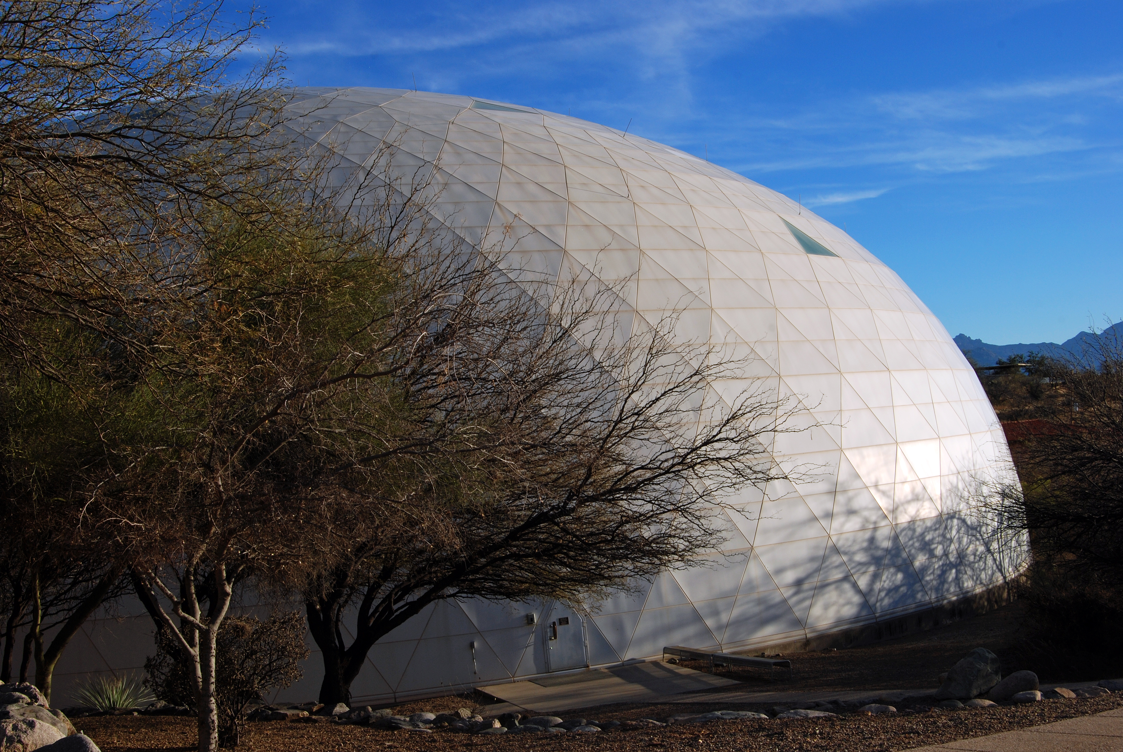 Biosphere2 / University of Arizona